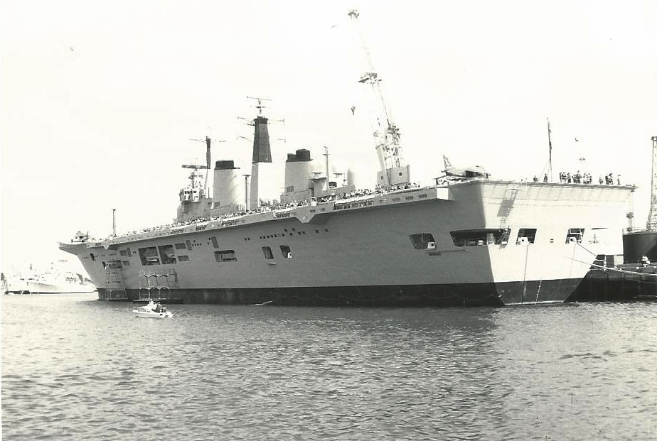 HMS Invincible, at Portsmouth Harbour, Portsmouth, Hampshire for Portsmouth Navy Day 1980.